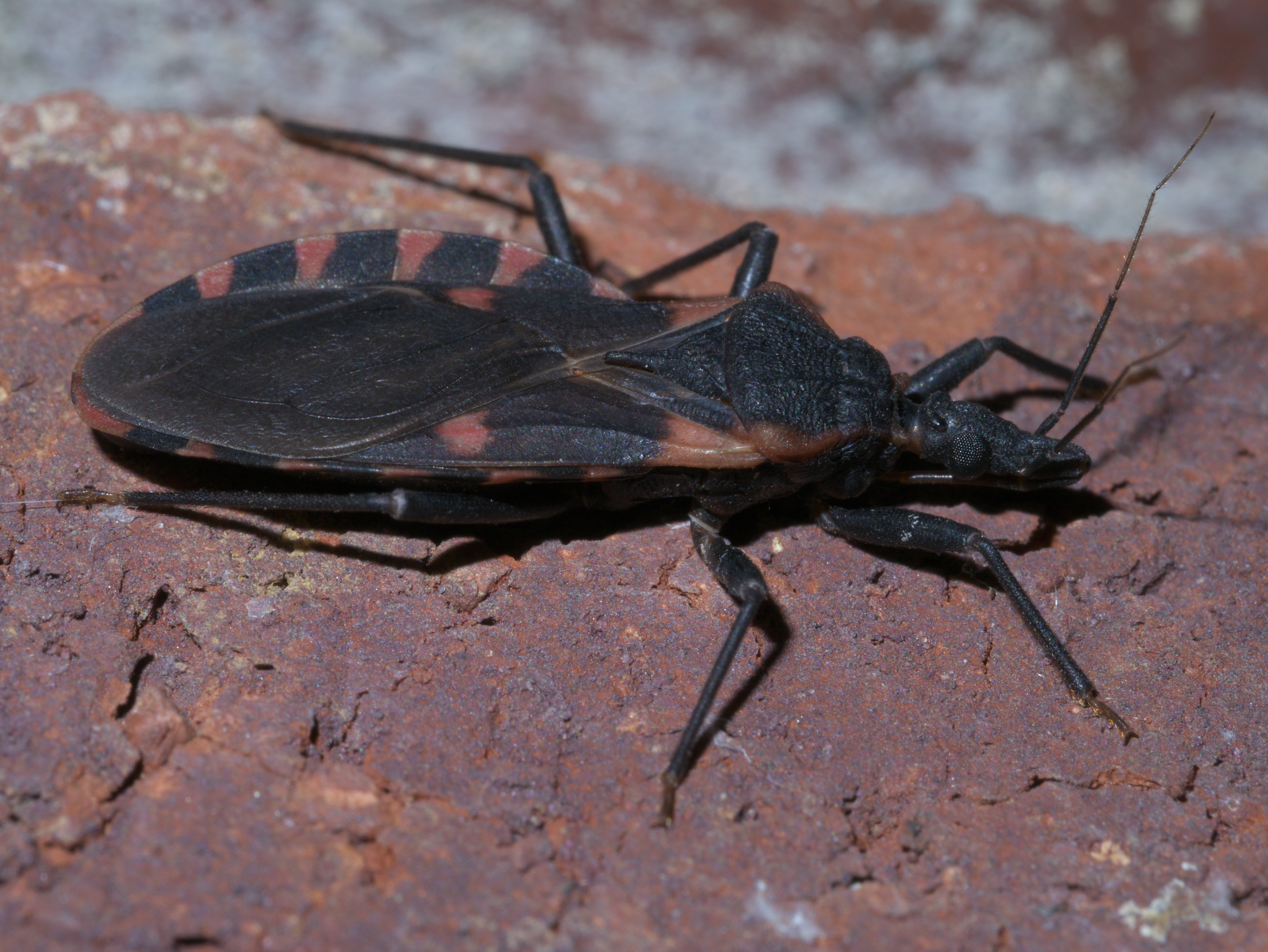 Triatoma sanguisuga, eastern blood-sucking conenose, ID Confidence: 97